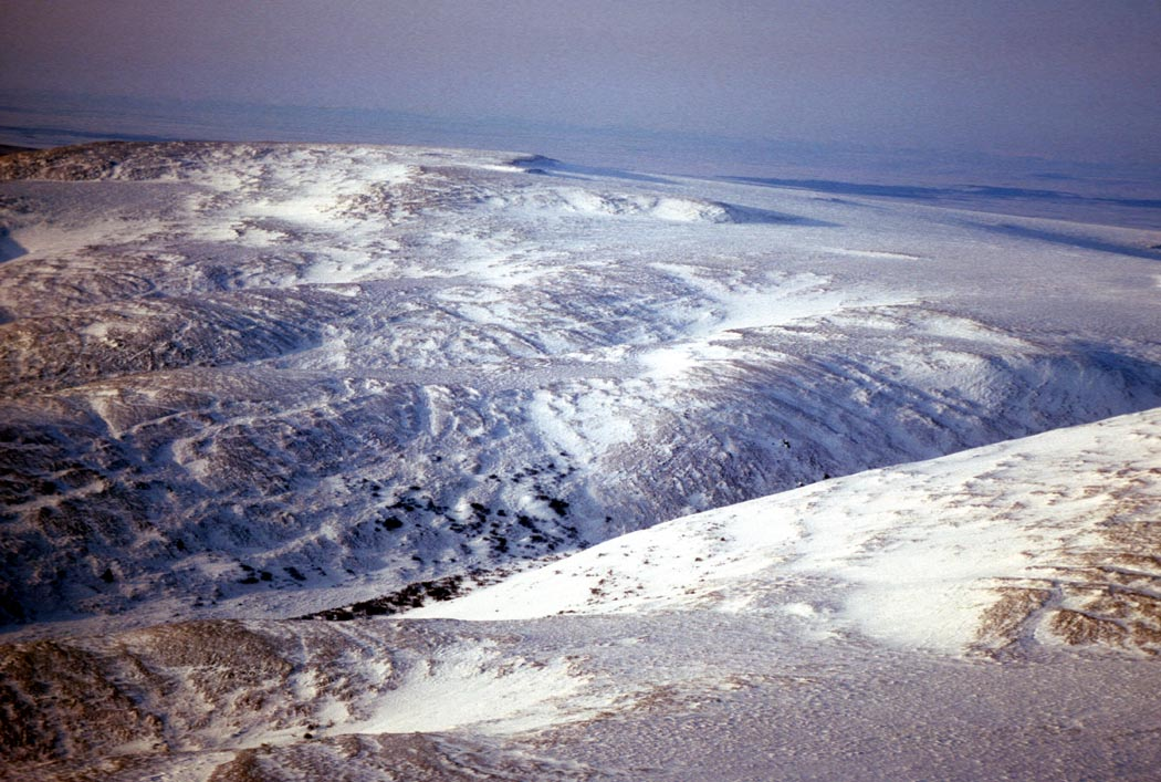 Purcell Mountains, Selawik National Wildlife Refuge